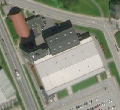 Satellite view